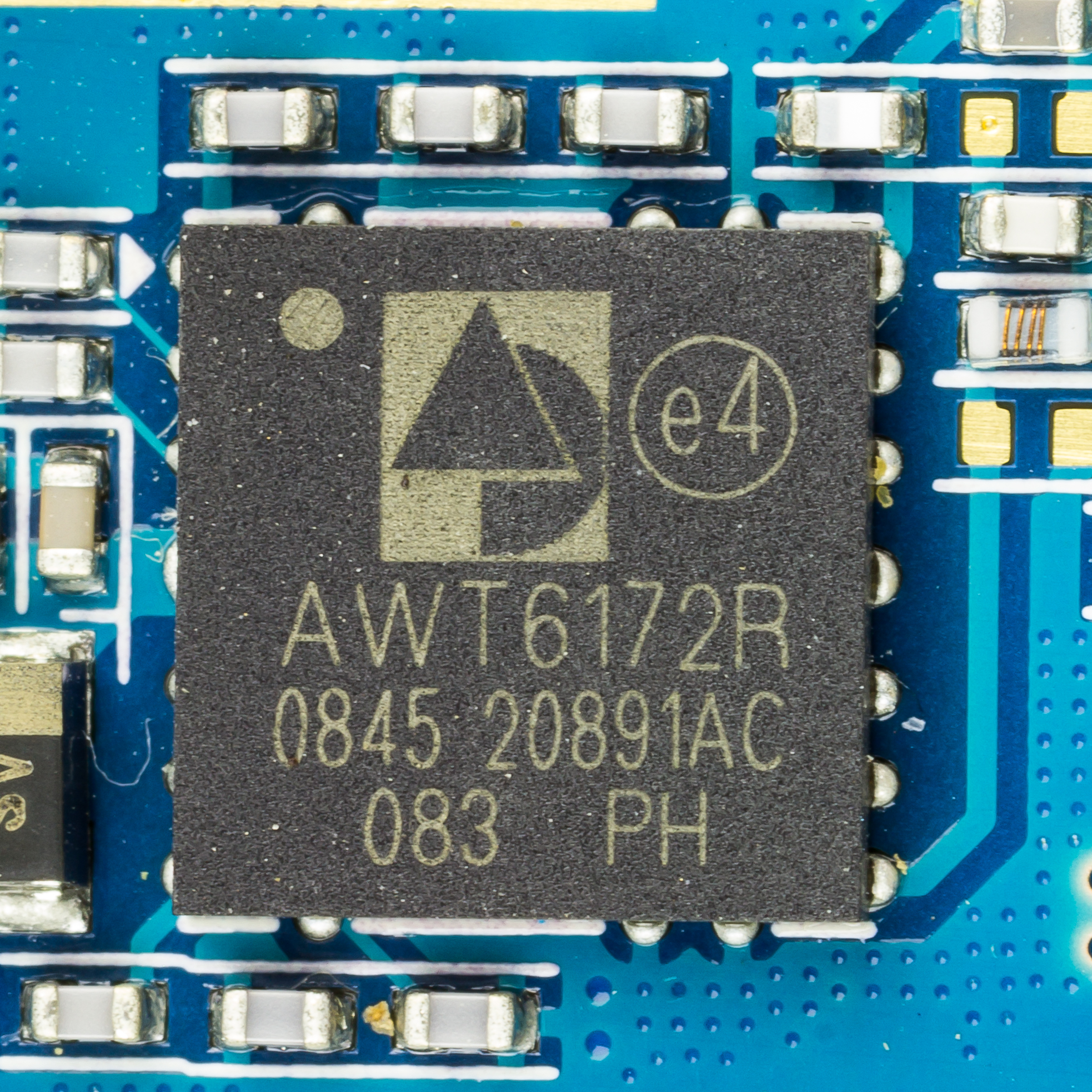 Samsung SGH-D880 - Anadigics AWT6172R (GSM/GPRS/EDGE Power Amplifier Module with Integrated Power Control) on motherboard